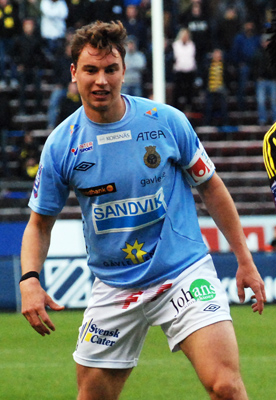 Gefle IF player Marcus Hansson.